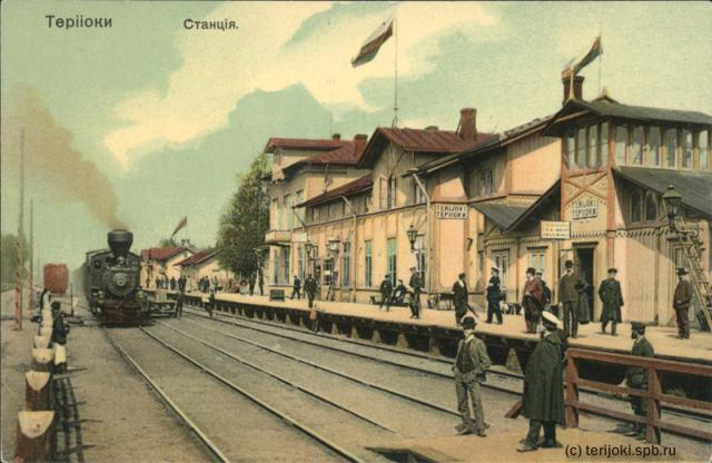 Zelenogorsk (Russia)